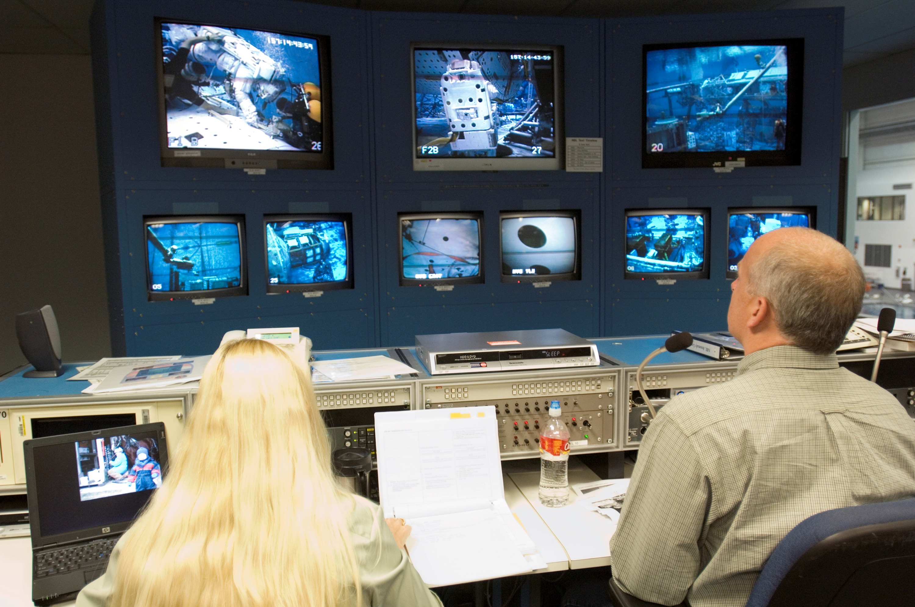 Astronaut Alan G. Poindexter (right), STS-122 pilot, observes underwater training activities of his crewmates from the simulation control area in the Neutral Buoyancy Laboratory (NBL) at the Sonny Carter Training Facility (SCTF) near Johnson Space Center. EVA instructor Anna Jarvis assisted Poindexter.